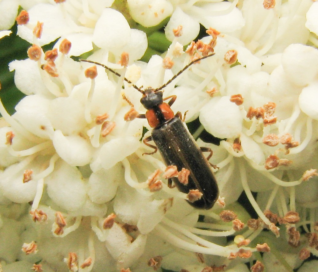 Soldier beetle, Rhagonycha recta. Willow Grove, Montgomery County, Pennsylvania, USA.